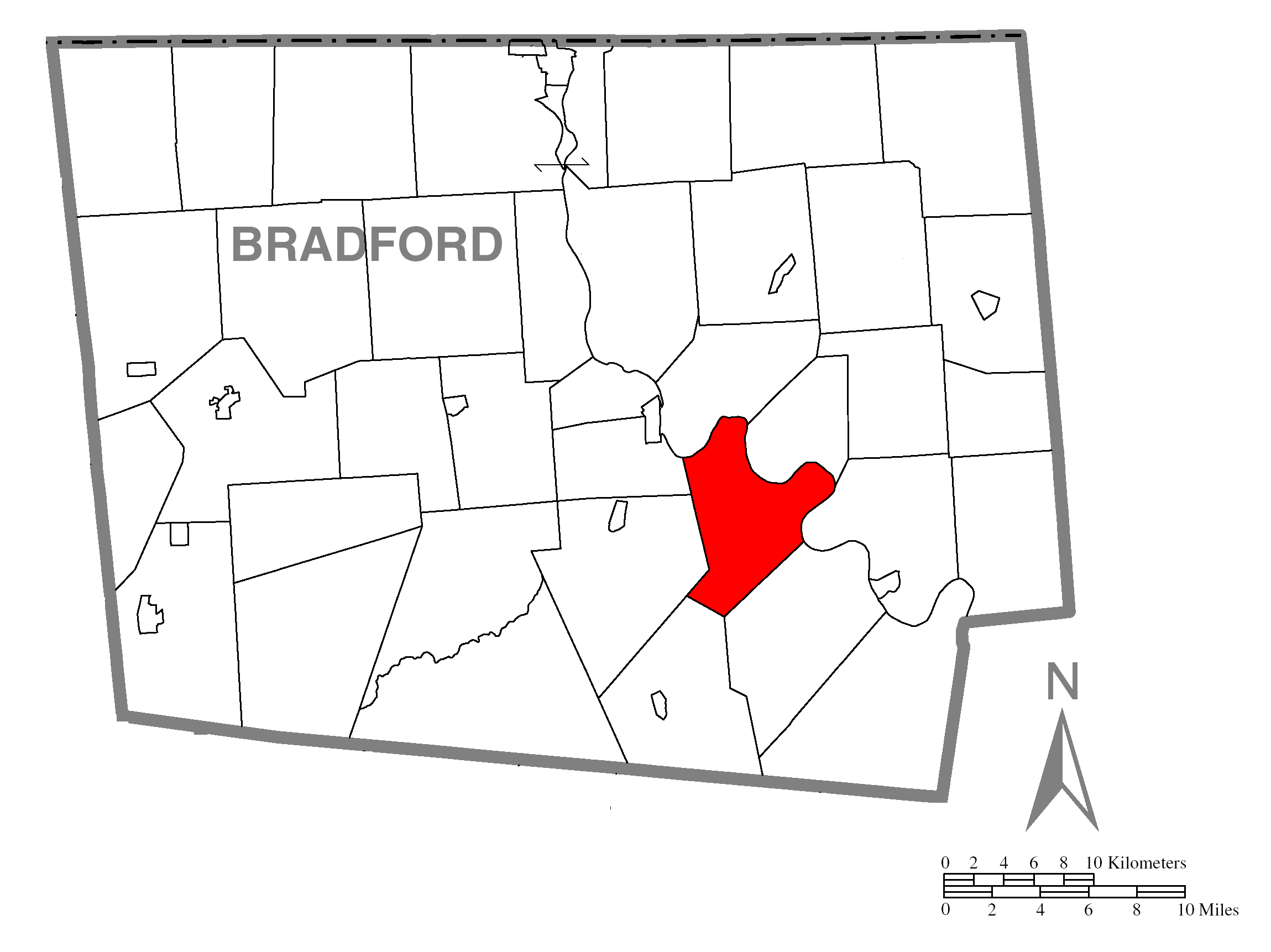 A map of Bradford County showing Asylum Township, Pennsylvania (alternate) highlighted on the map.